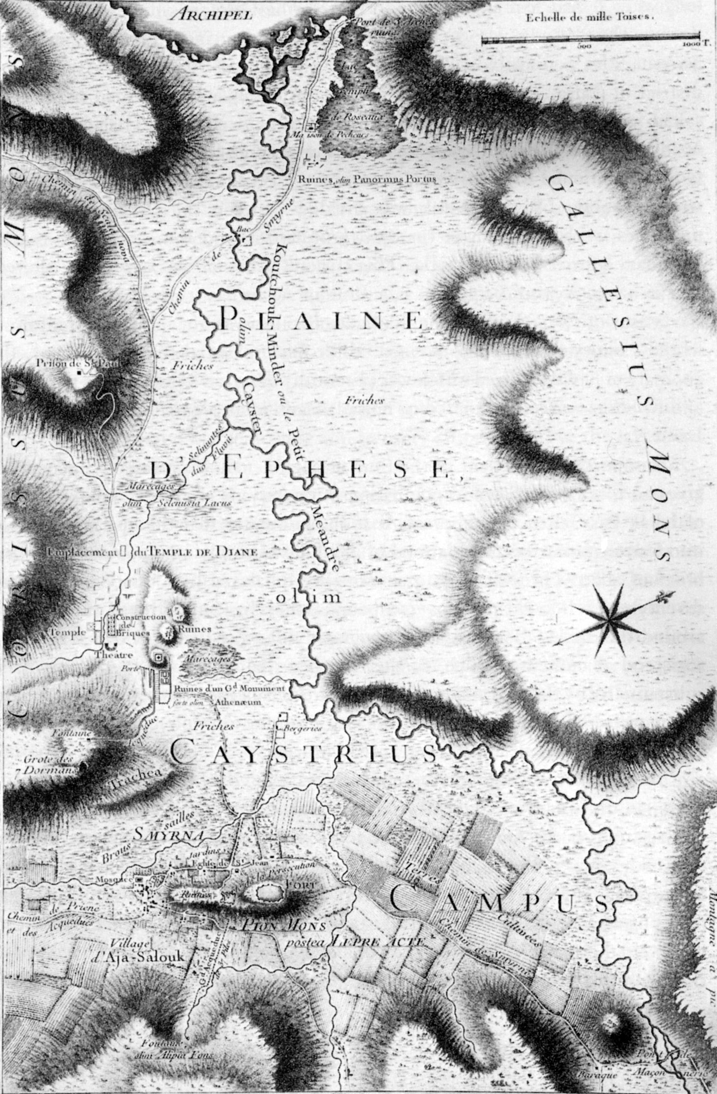 Map of the Ephesos region by Choiseul-Gouffier.